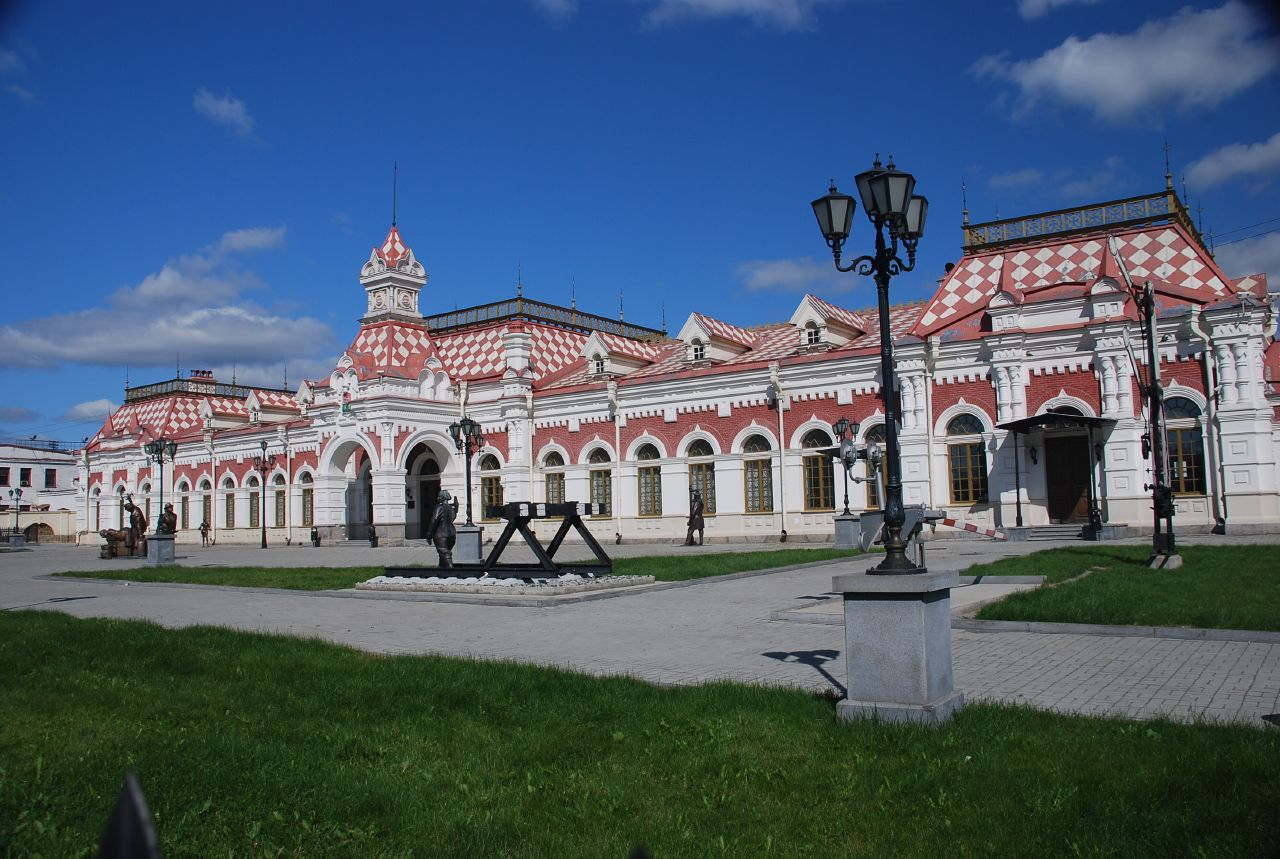 Old train station of Yekaterinburg